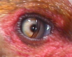 This is a chicken blinking. You can see her inner eyelid (nictitating membrane, hew) moving laterally.